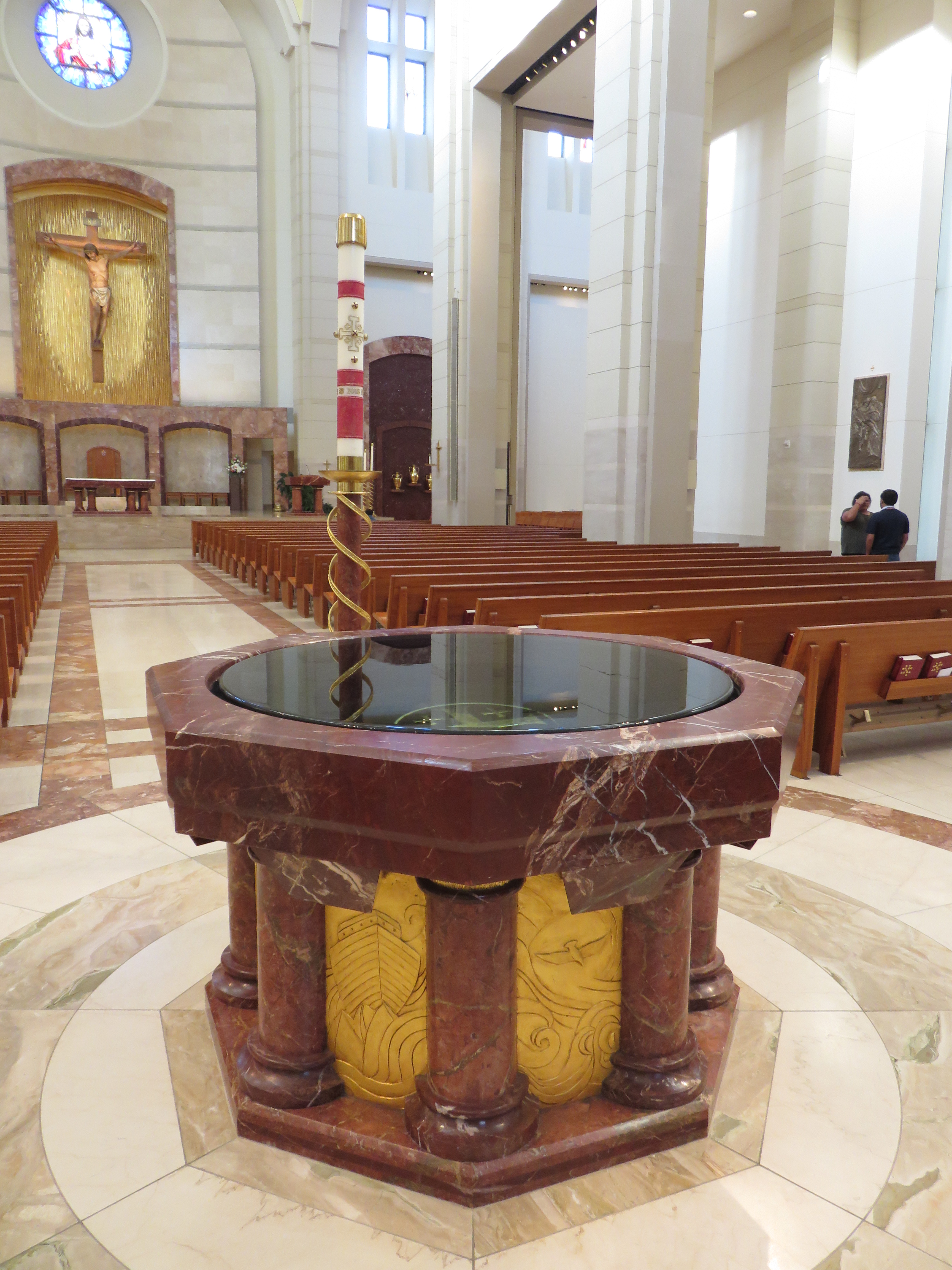 Interior of the Co-Cathedral of the Sacred Heart in Houston, Texas in 2018